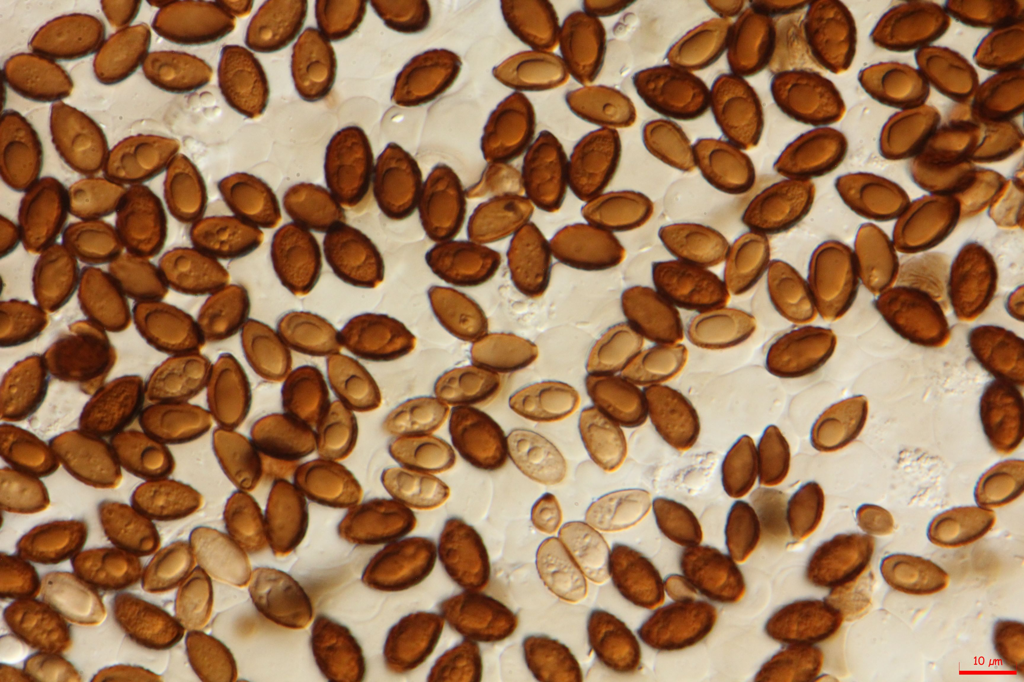 Panaeolina foenisecii spores 1000x, with DIC illumination.